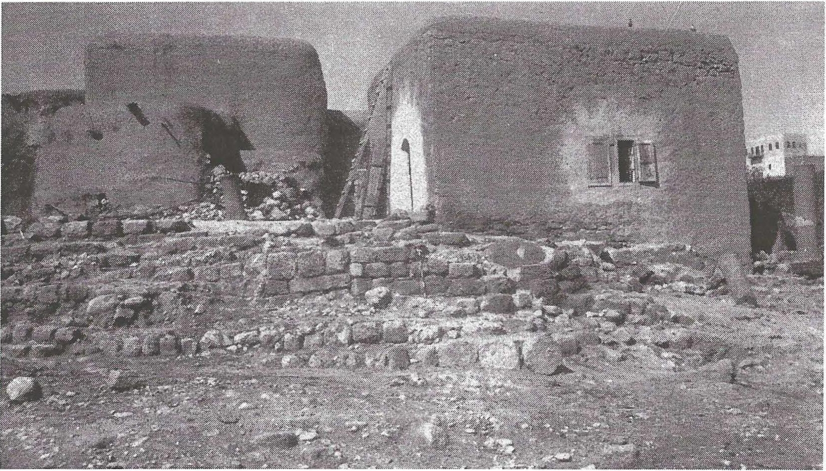 Description